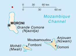 Map showing approx. crash site of Yemeniya Flight 626